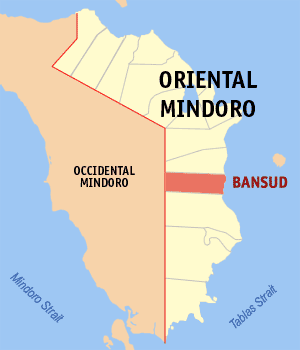 Map of Oriental Mindoro showing the location of Bansud